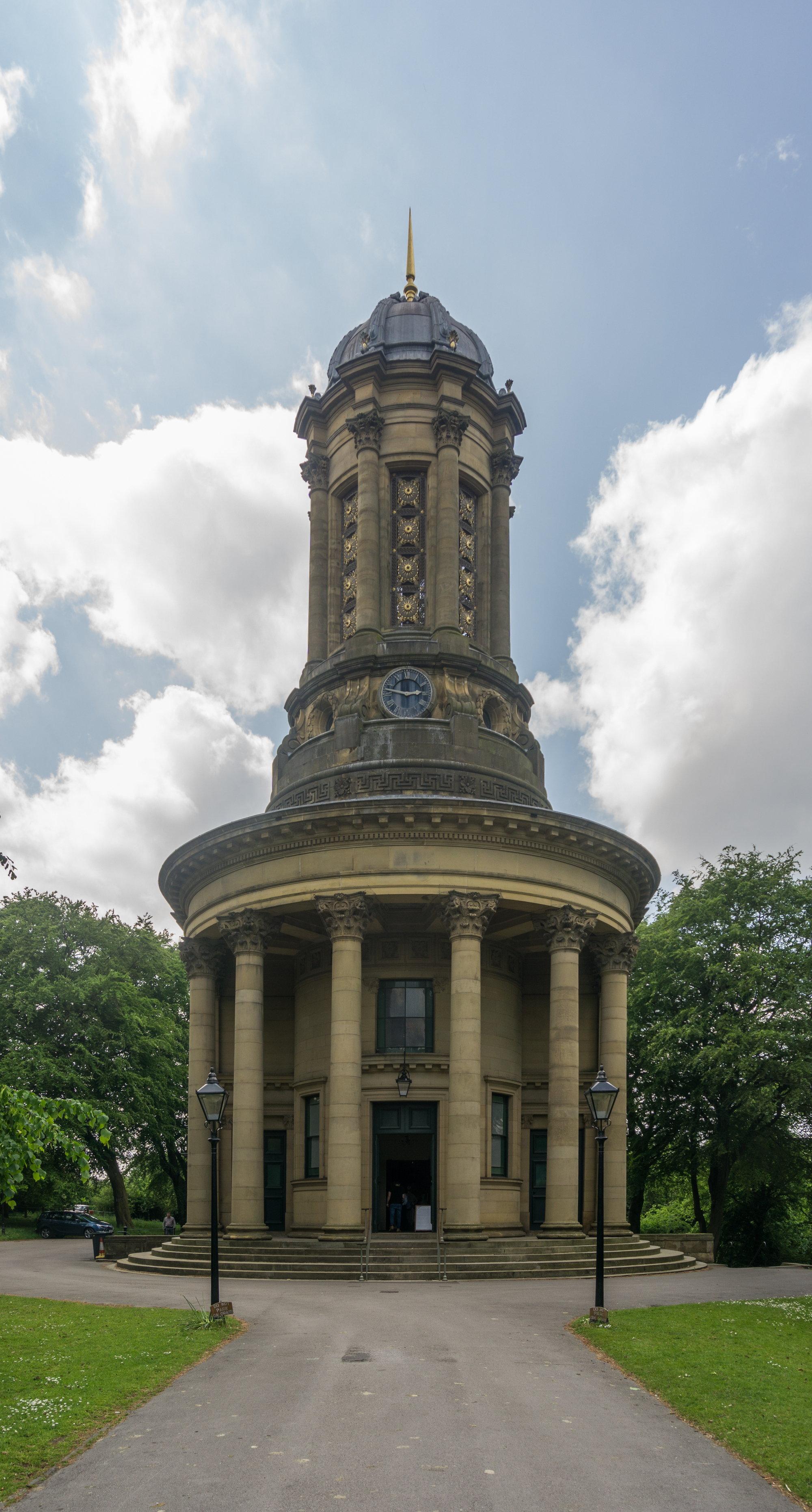 Congregational Church (including Salt Family Mausoleum To South) Wikidata has entry Q17526589 with data related to this item.